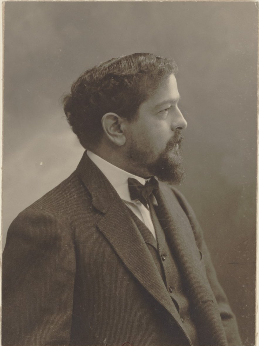 Cropped image of Claude Debussy from Bibliothèque nationale de France, département Musique